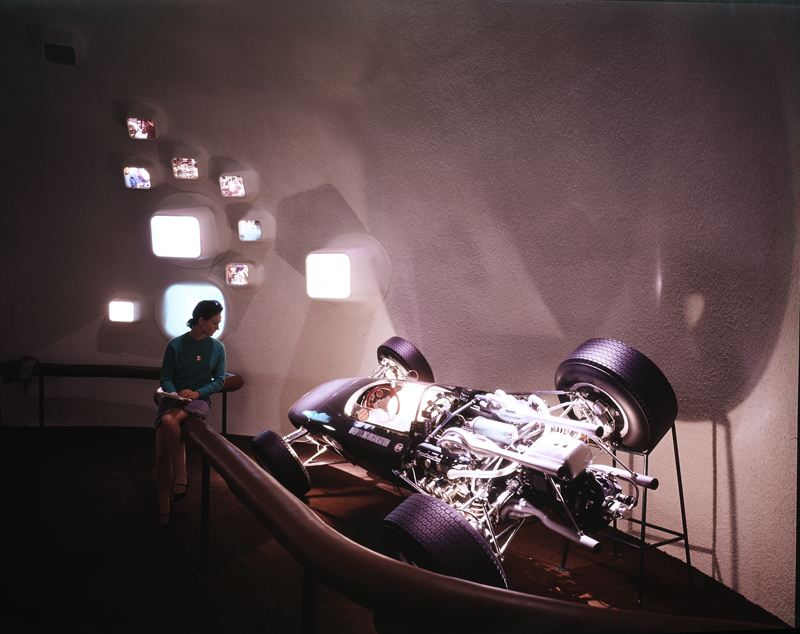 Description: BRM 3 litre racing car photographed in the British Industry section of Montreal Expo 67. British Racing Motors (or 'British Racing Misery' when not performing well) were one of the leading Grand Prix teams of the 1960s. In 1962 Graham Hill became World Champion driving for the team. Date: 1967 Our Catalogue Reference: INF14/345 This image is from the collections of The National Archives. Feel free to share it within the spirit of the Commons. For high quality reproductions of any item from our collection please contact our image library .